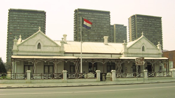 Kruger House. A view from Church St, Pretoria.